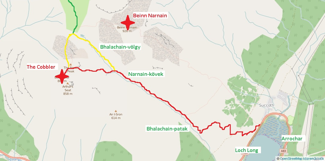 Trails leading to The Cobbler.